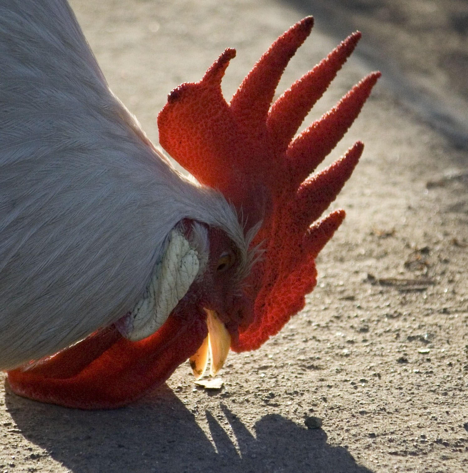 Cockscomb